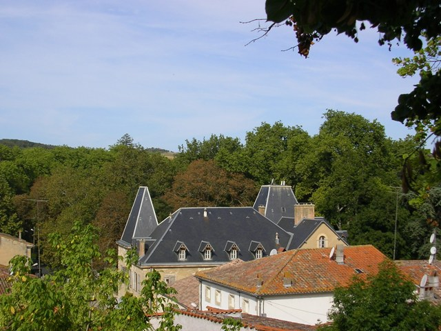 View of the chateau from the top of the village